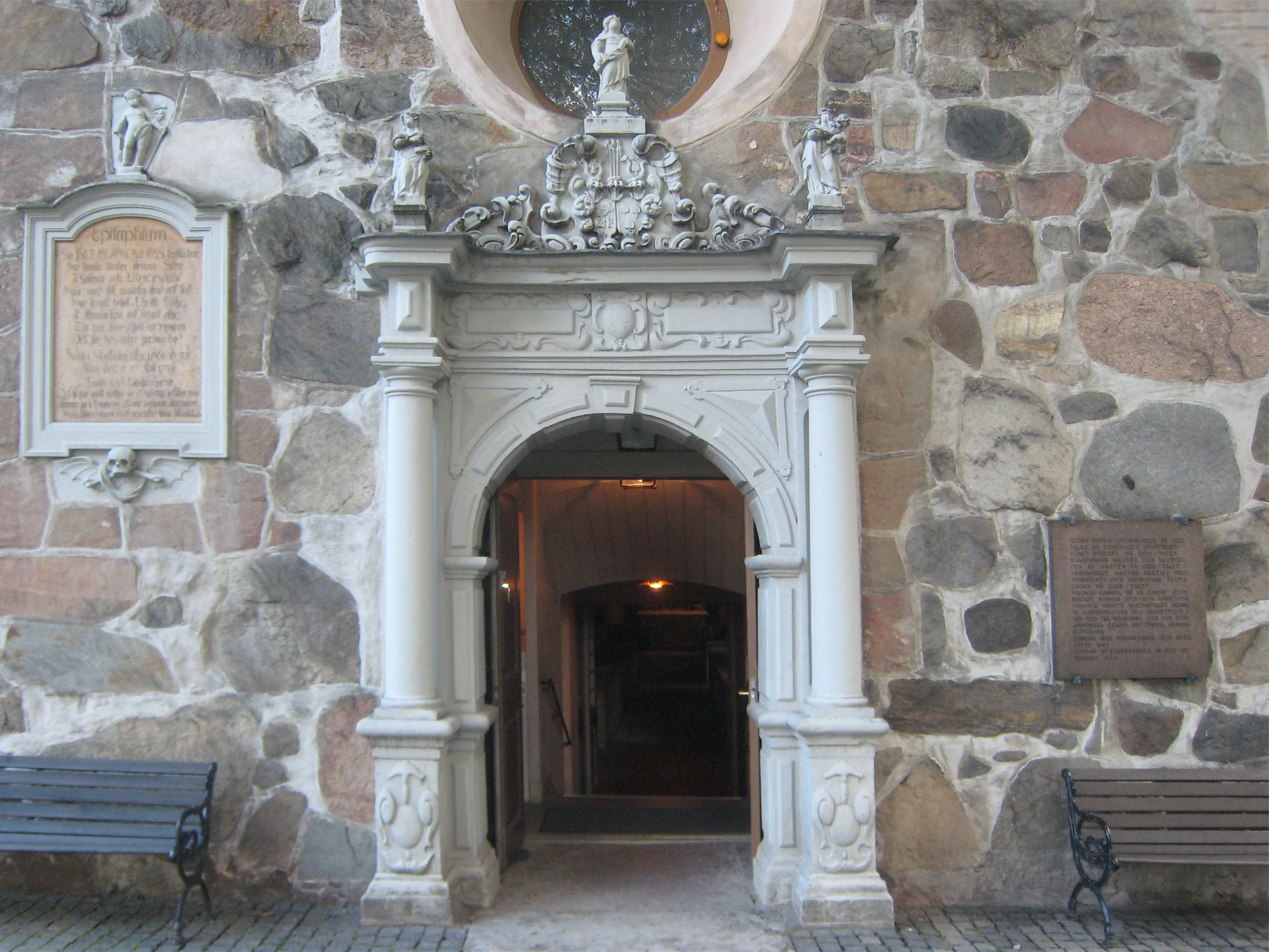 Västra ingången till Solna Kyrka